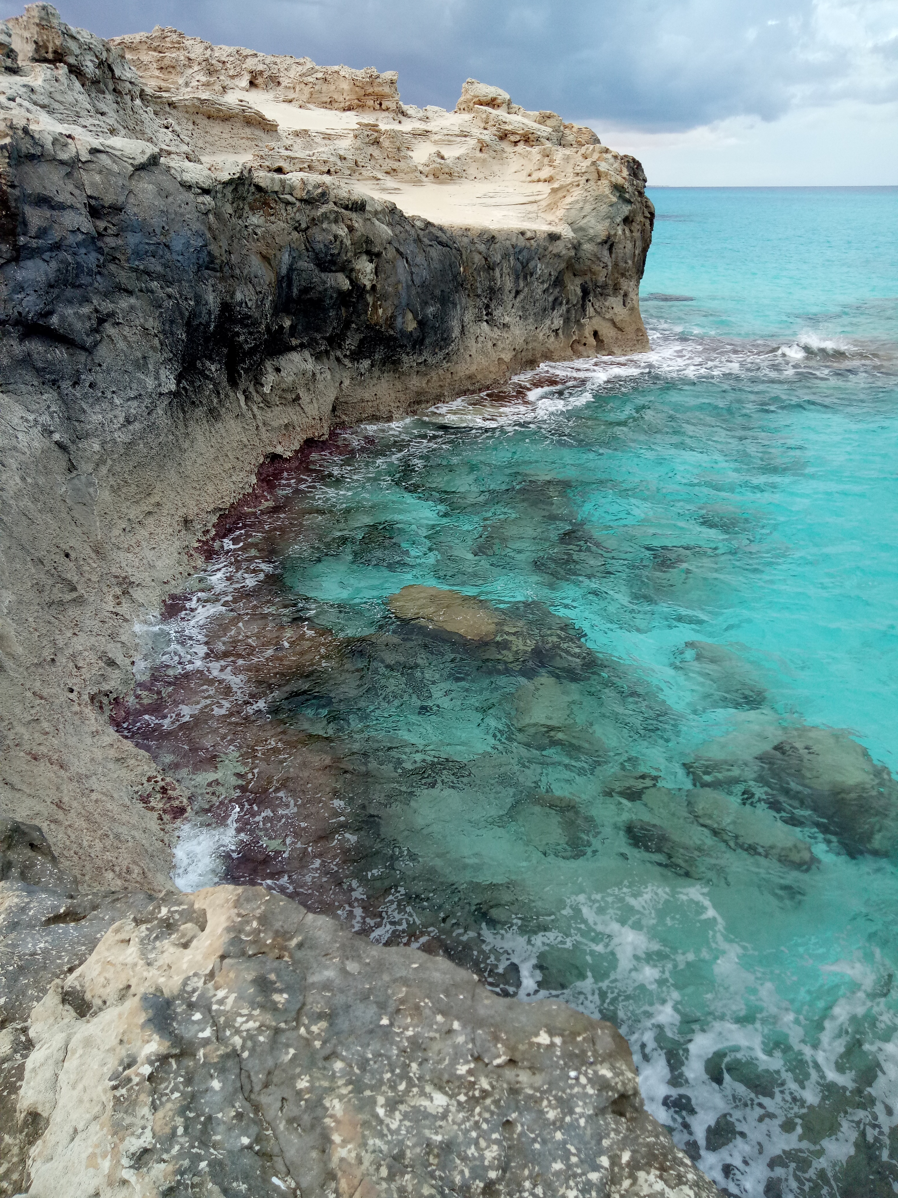 Marsa Rock of the most beautiful place overlooking the beach Pure water for the sea This is an image with the theme "Play" from: Egypt